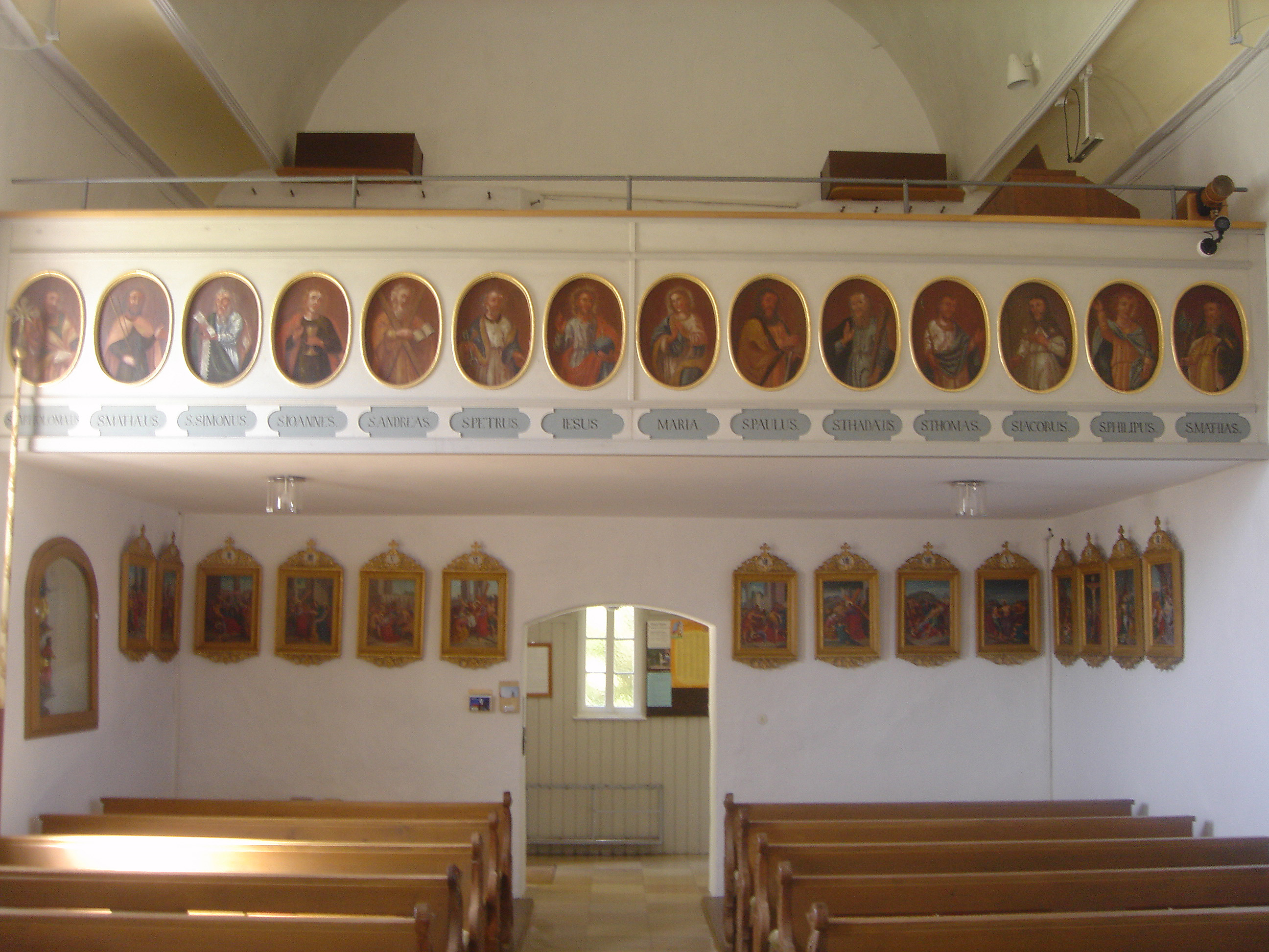 entrance area of the church in Ermengerst